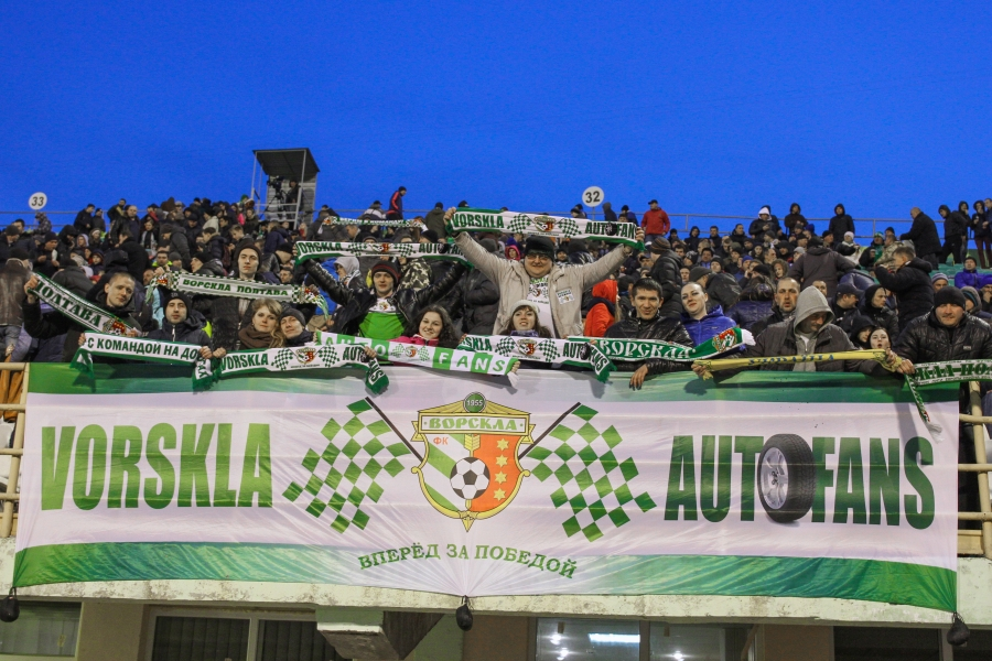 Vorskla Poltava Avtofany